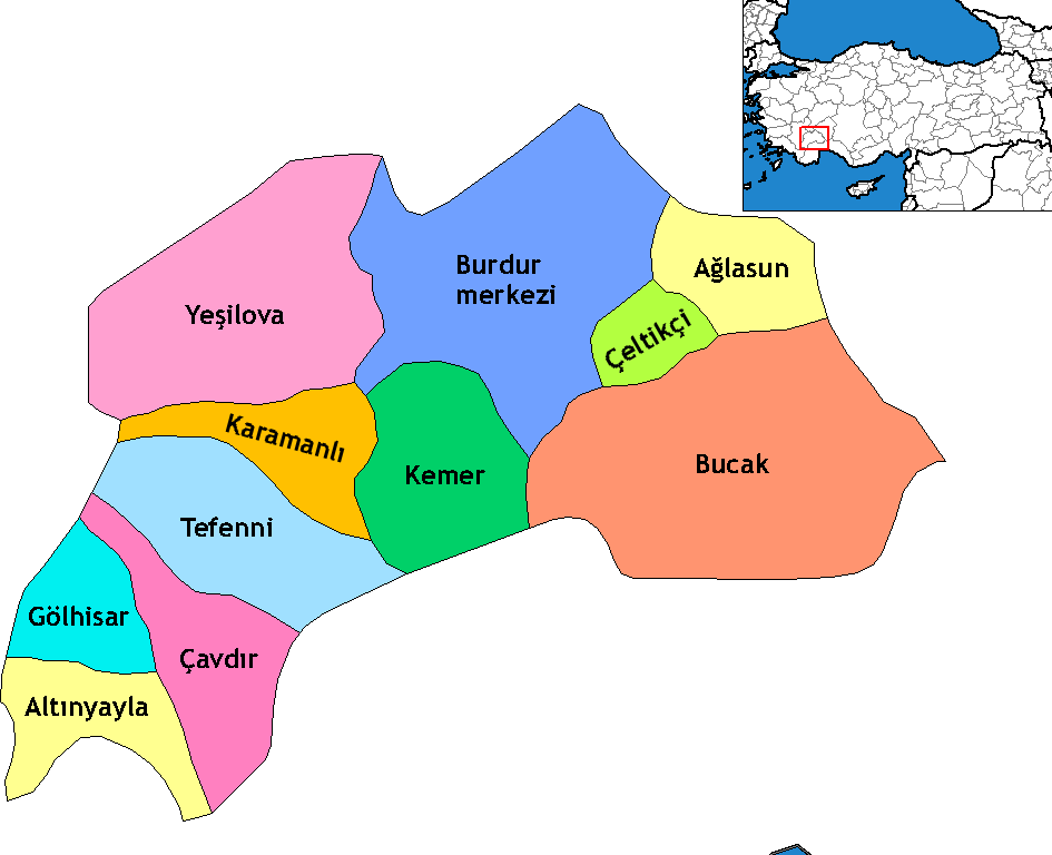 Map of the districts of Burdur province in Turkey. Created by Rarelibra 19:27, 1 December 2006 (UTC) for public domain use, using MapInfo Professional v8.5 and various mapping resources. Edited by One Homo Sapiens Corrected text where İ,Ş,ı,ğ,or ş occurs in name. Source: [statoids-com]. Increased font size and enhanced color differences among adjacent districts.